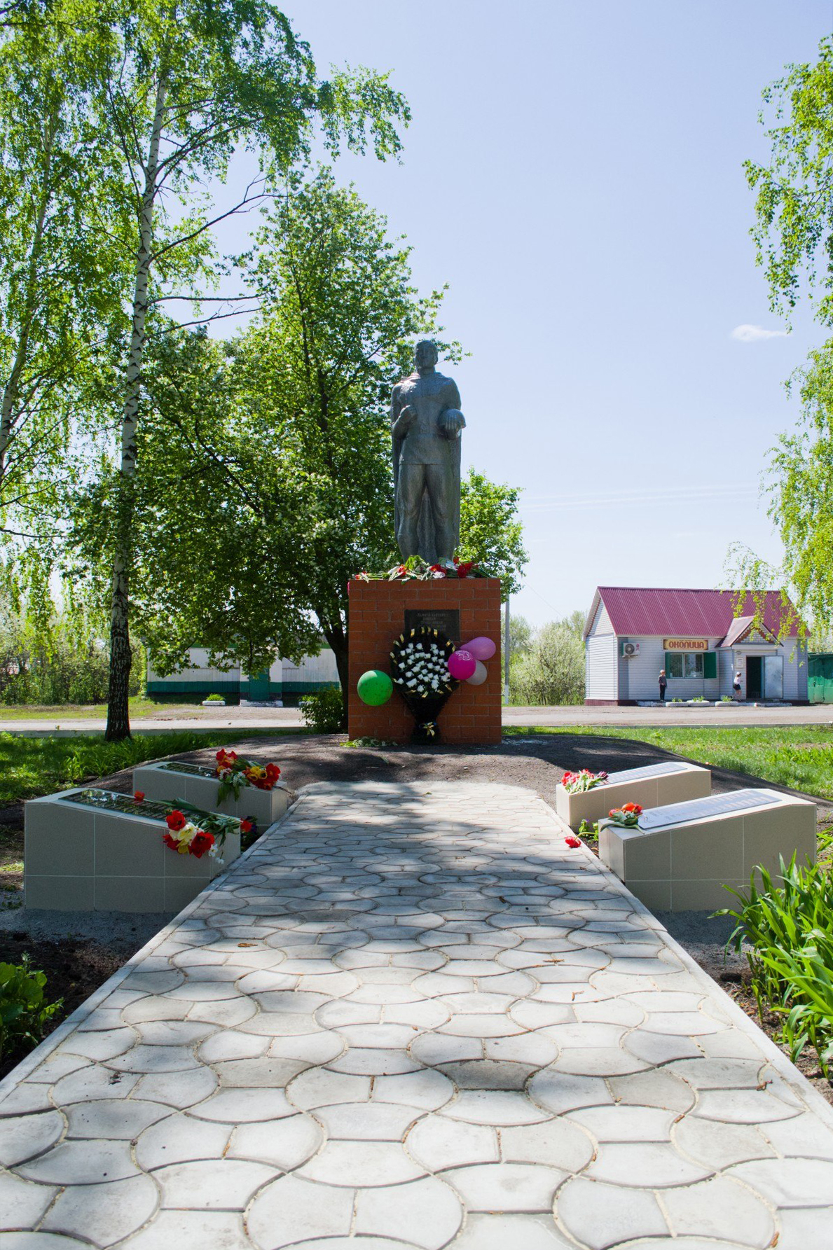 Памятник